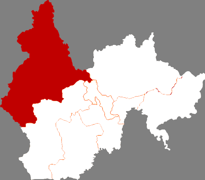 Location of Dunhua county-level city in Yanbian Korean Autonomous Prefecture, China